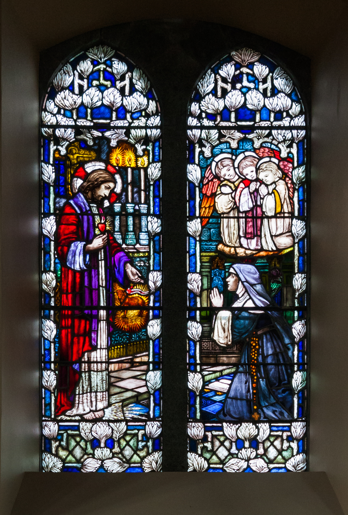 Stained glass window above the right side altar, depicting depicting Marguerite Marie Alacoque how she receives a revelation of the Sacred Heart. Created by Ethel Rhind (c.1877–1952) in 1910. (See Nicola Gordon Bowe et al, Gazetteer of Irish Stained Glass, p. 38.)